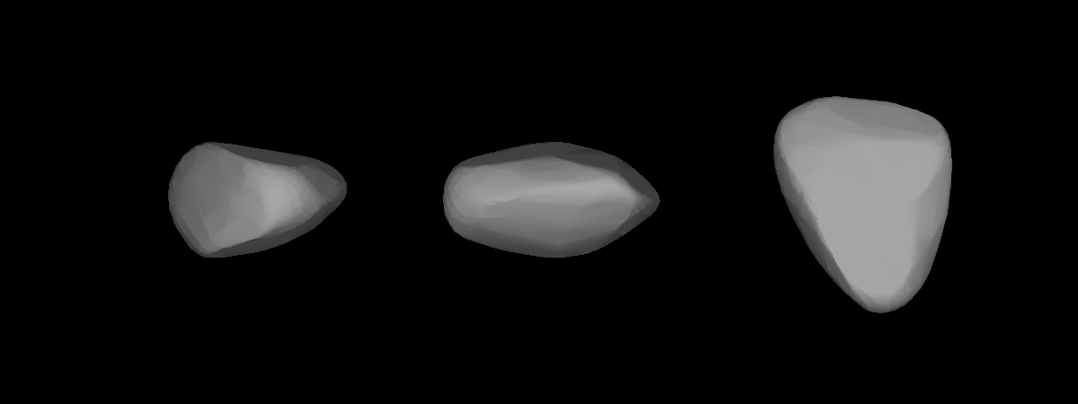 A three-dimensional model of 1270 Datura that was computed using light curve inversion techniques.